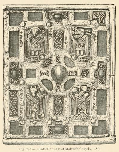 cover from Molaise Gospels, taken from an illustration in the book Historic ornament : treatise on decorative art and architectural ornament, vol.2 by James Ward (1851 - 1924)